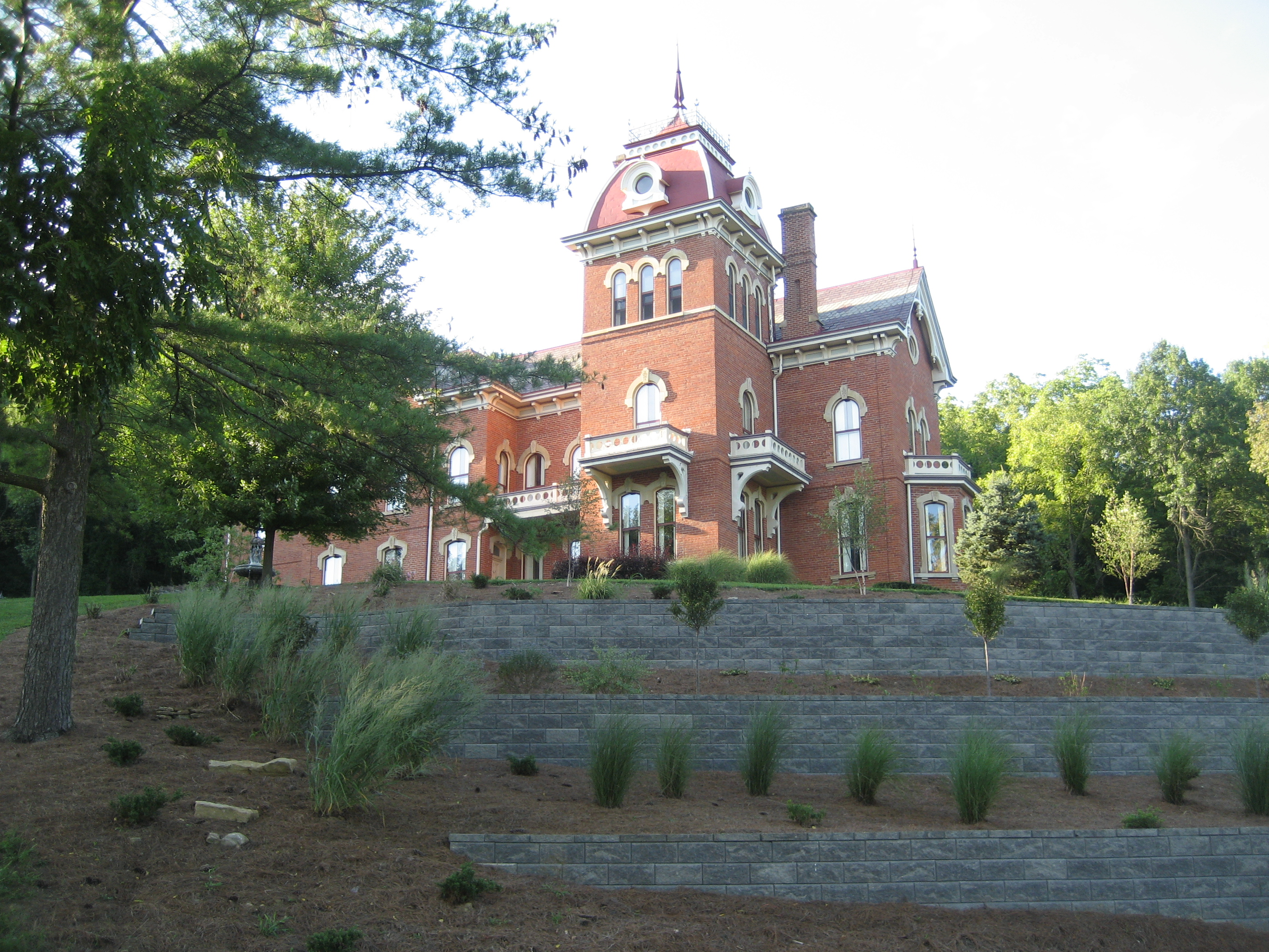 Front View of the Benjamin Schenck Mansion